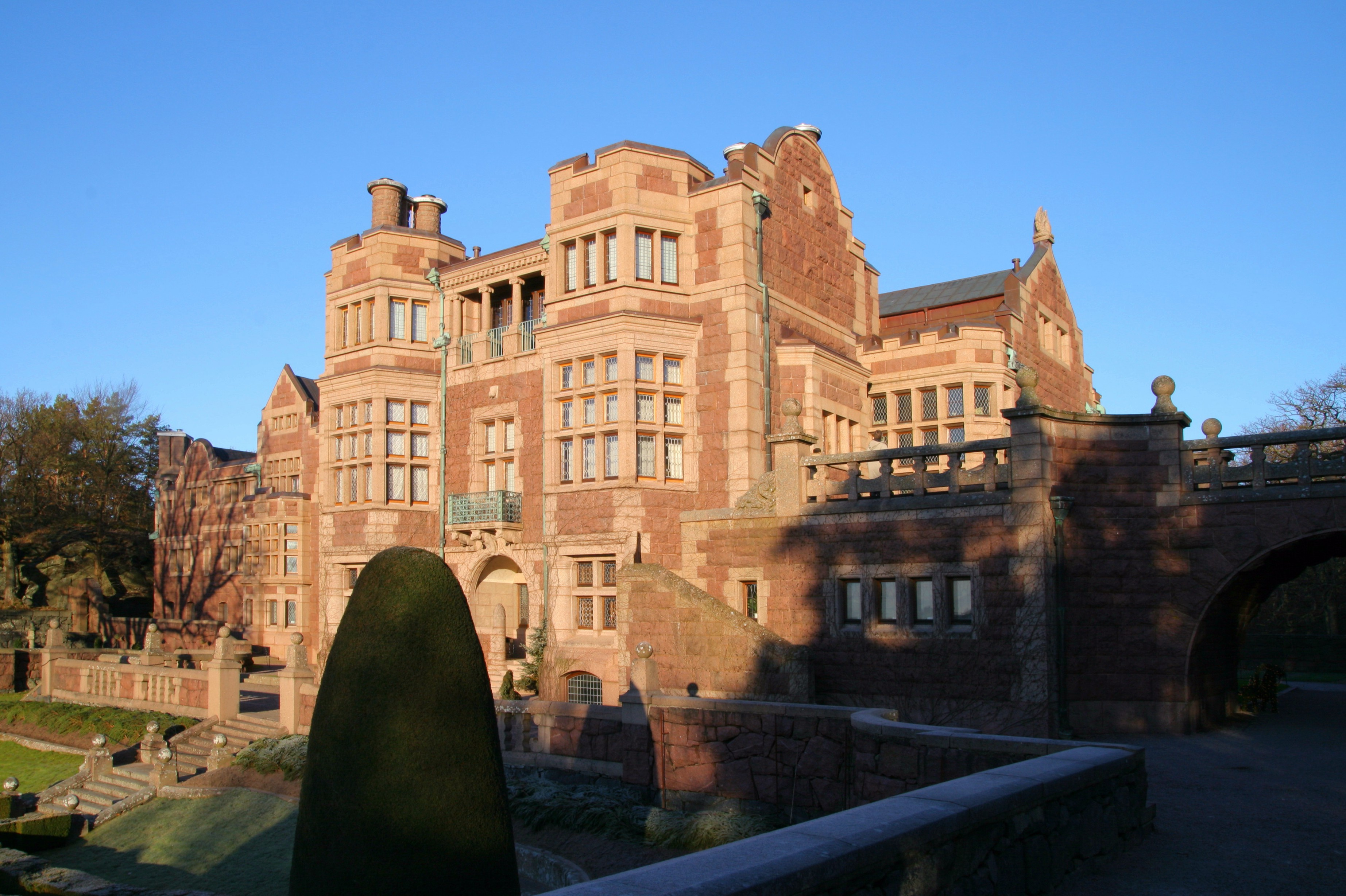 Seaside view of the castle of Tjolöholm, south of Kungsbacka, Sweden.